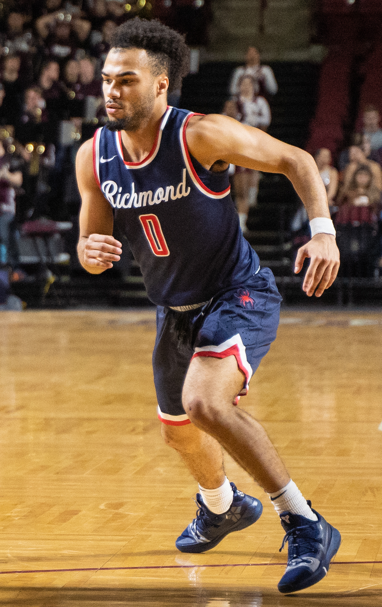 Guard Luwane Pipkins rushes down the court at the Mullins center on Wednesday, Mar. 6, 2019. Photo by Jon Asgeirsson.